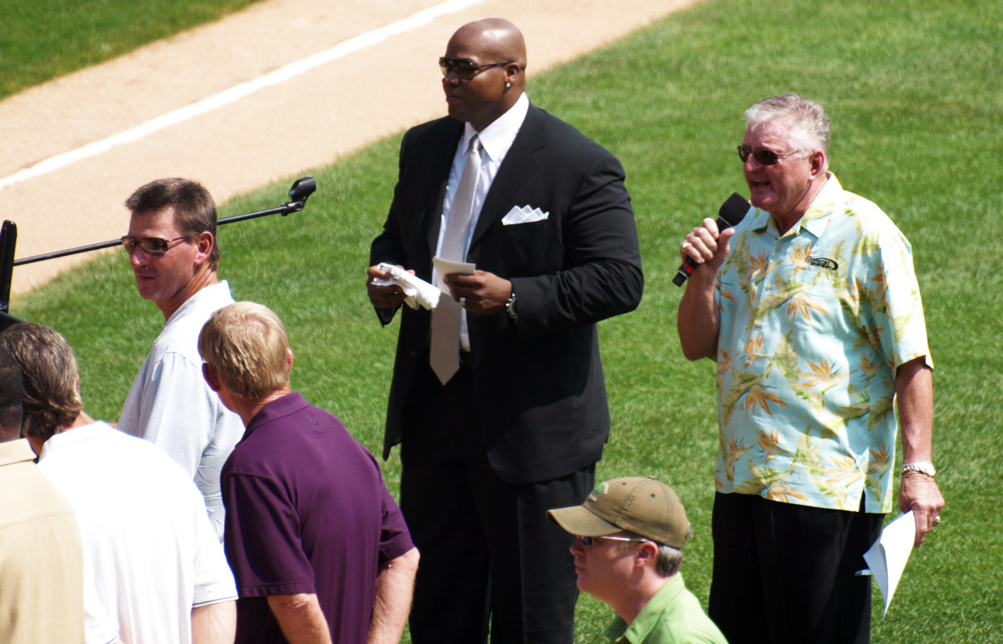 Frank Thomas Day - U.S. Cellular Field - 8/29/10